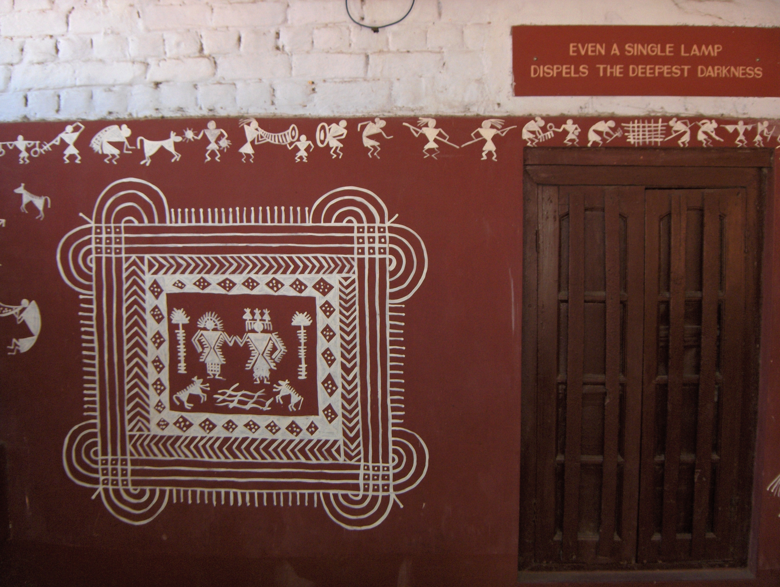 Warli art at the Sabarmati Ashram in Ahmedabad, India Picture taken by me, Nichalp on 28-Jan-2006